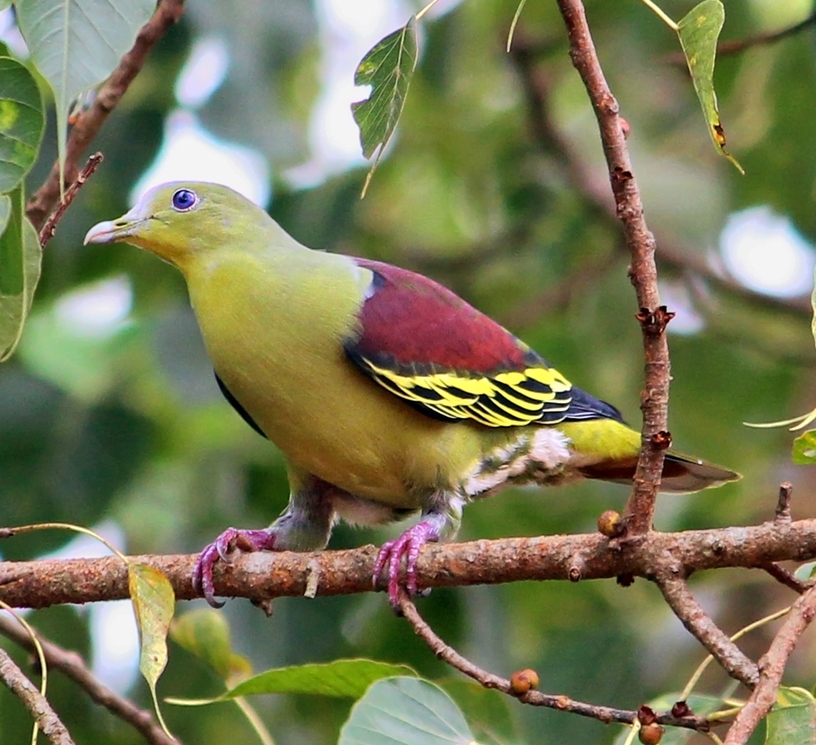 Grey - fronted Green Pigeon